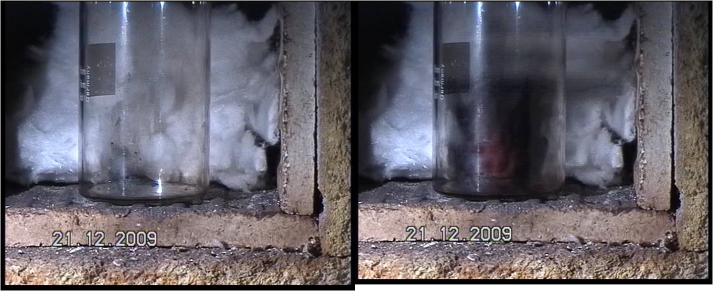 Explosive exfoliation of graphite oxide by heating. The picture is combination of two screenshots from video loaded at youtube: [1]